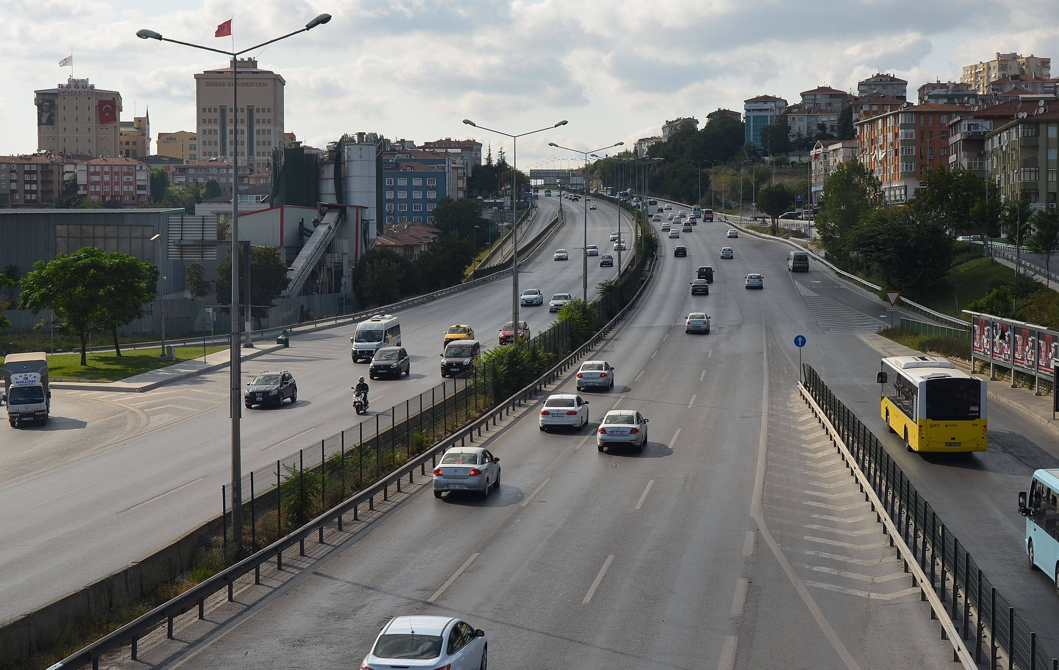 State road D-100 seen westwards at Uzunçayır, Kadıköy - Istanbul, Turkey